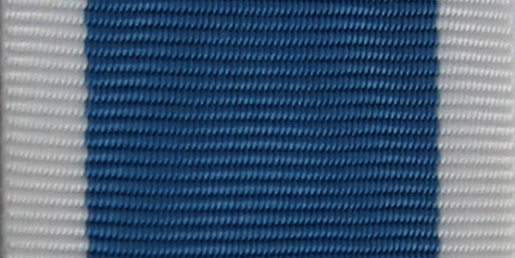 The colors (band) of Pohjois-Pohjalainen osakunta, a finnish student organisation, small straight version